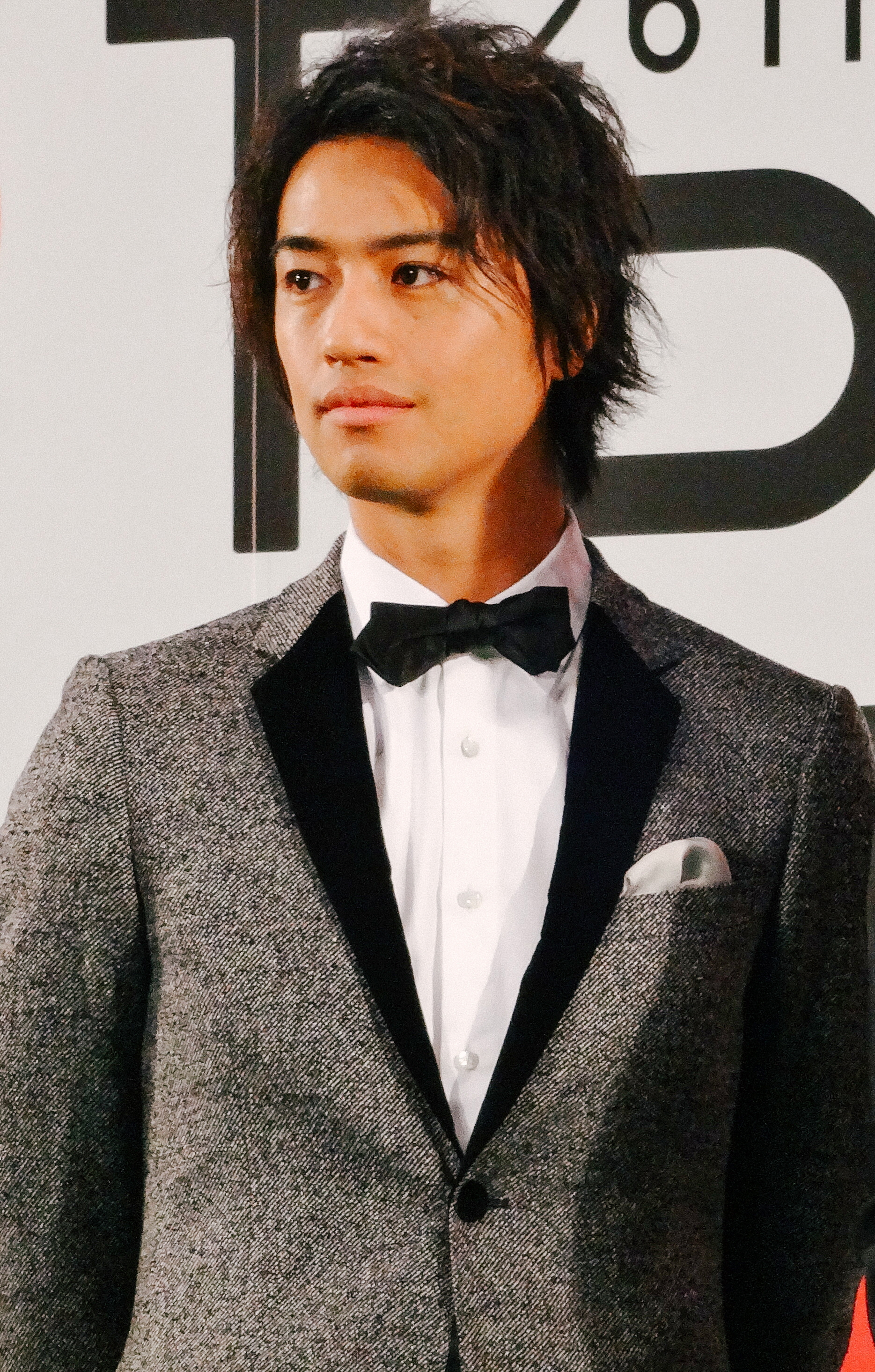 26th Tokyo International Film Festival - Saito Takumi (斎藤工)